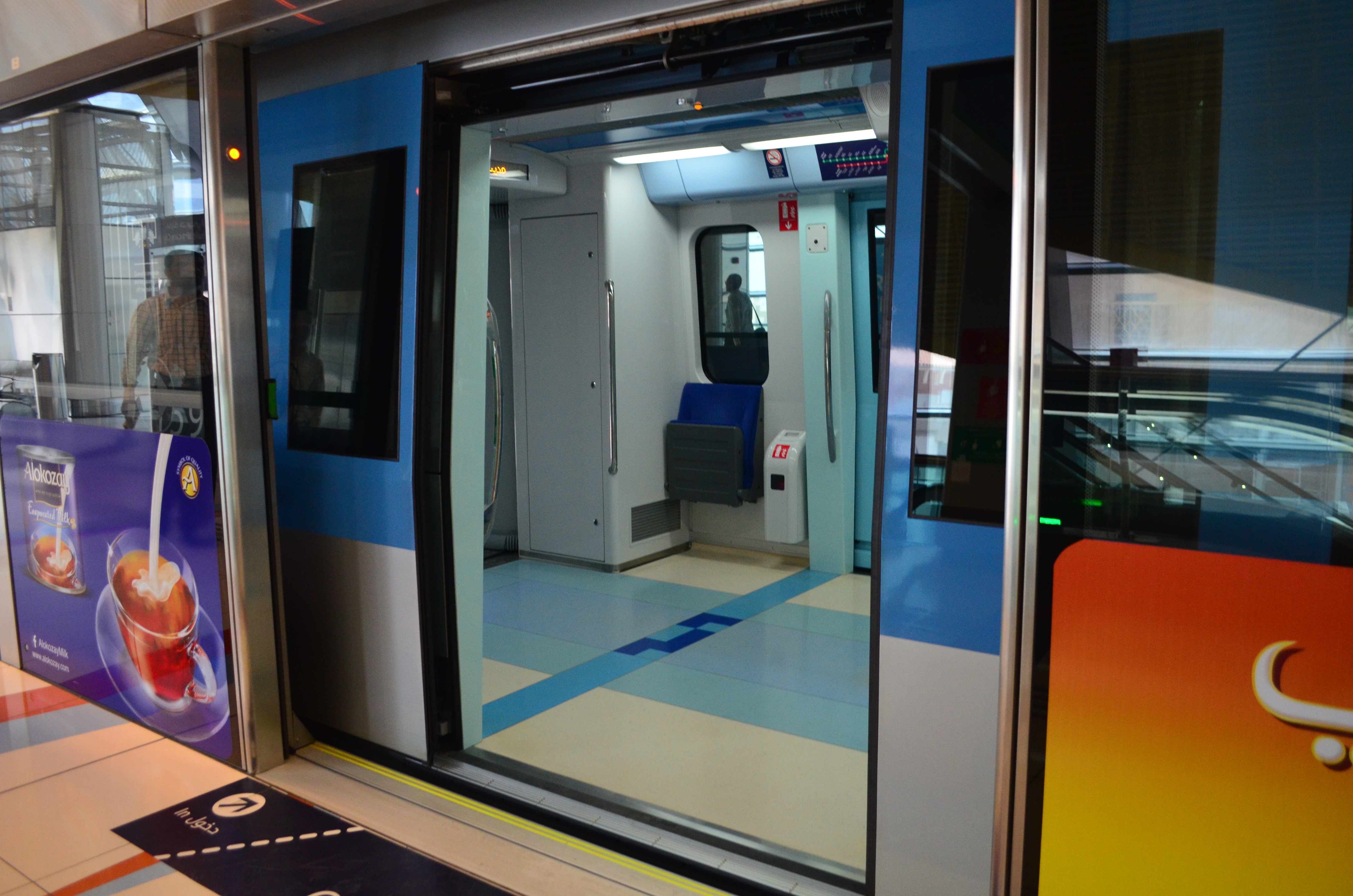 Dubai